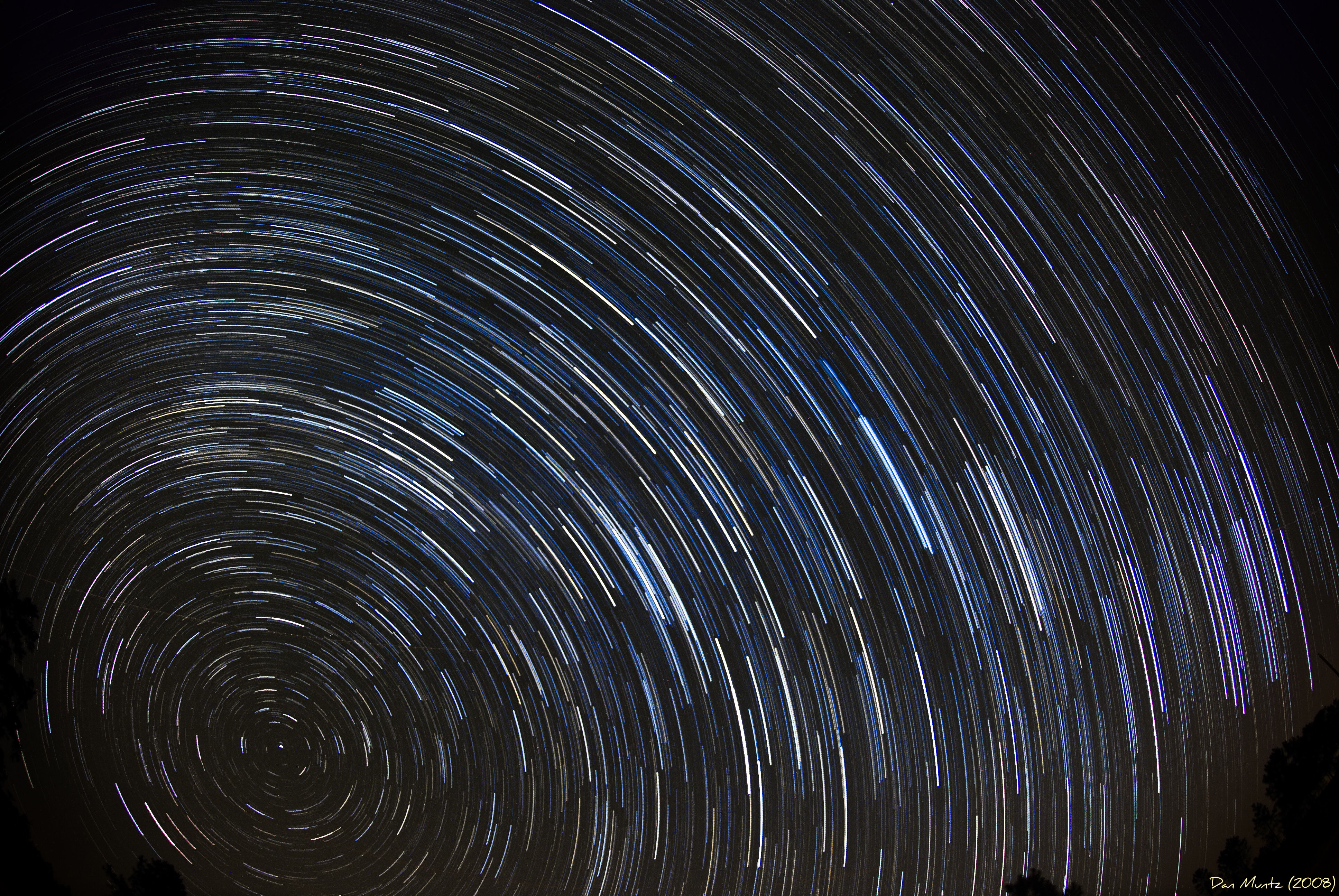 This is a stack of 90 frames. Each frame is was exposed at ISO 1600 for 1 minute at f/2.8 through a 10mm fisheye lens. The faint streak through the middle is a plane that passed by about 20 minutes into the series. I also managed to catch a few meteors, but they can't be seen in this stack. I took out a single frame which caught a meteor which can be viewed here. View on Black